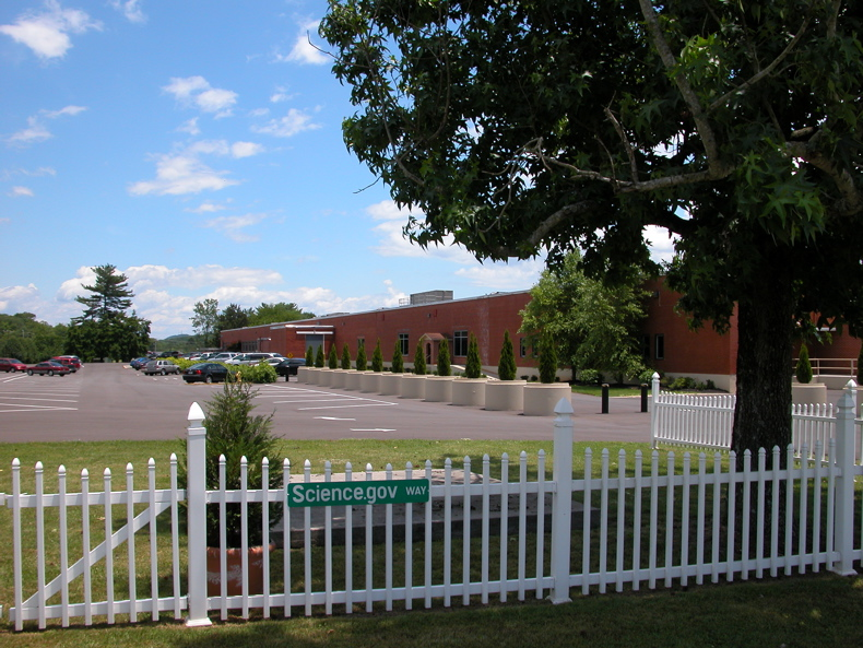 View of the Office of Scientific and Technical Information with the gateway in the foreground.